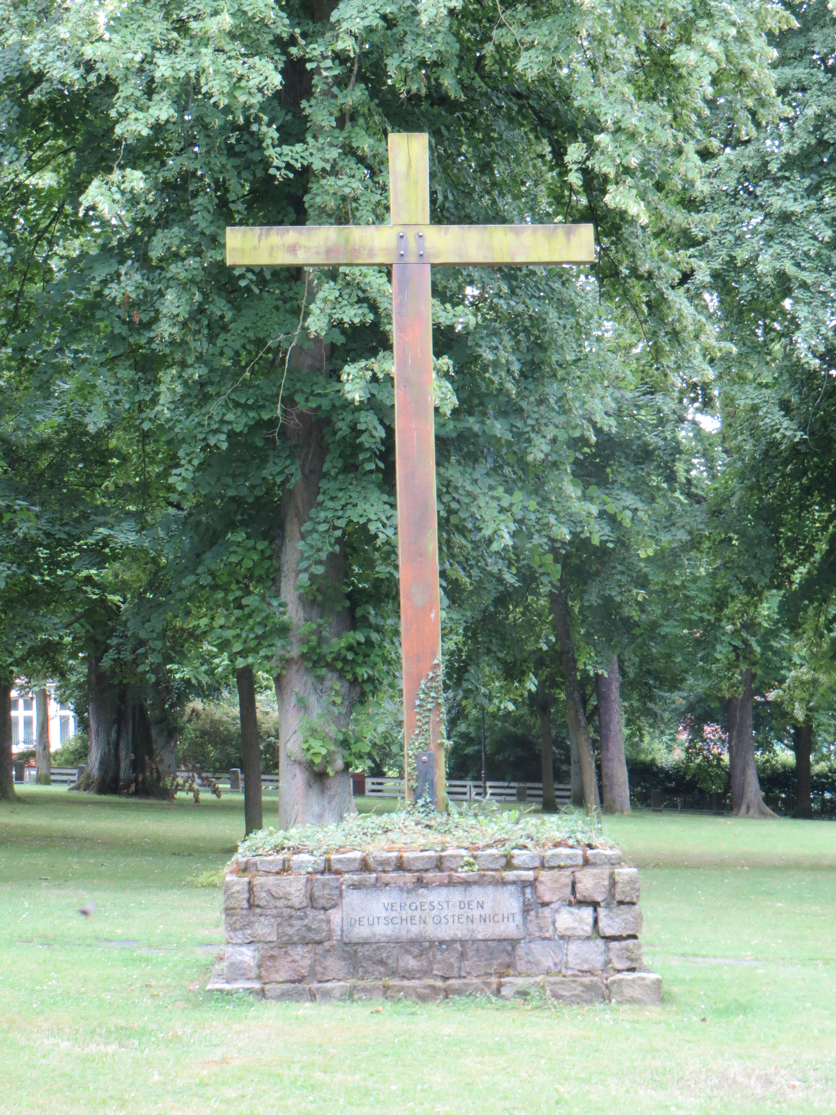 Memorial cross on Palmberg Ratzeburg